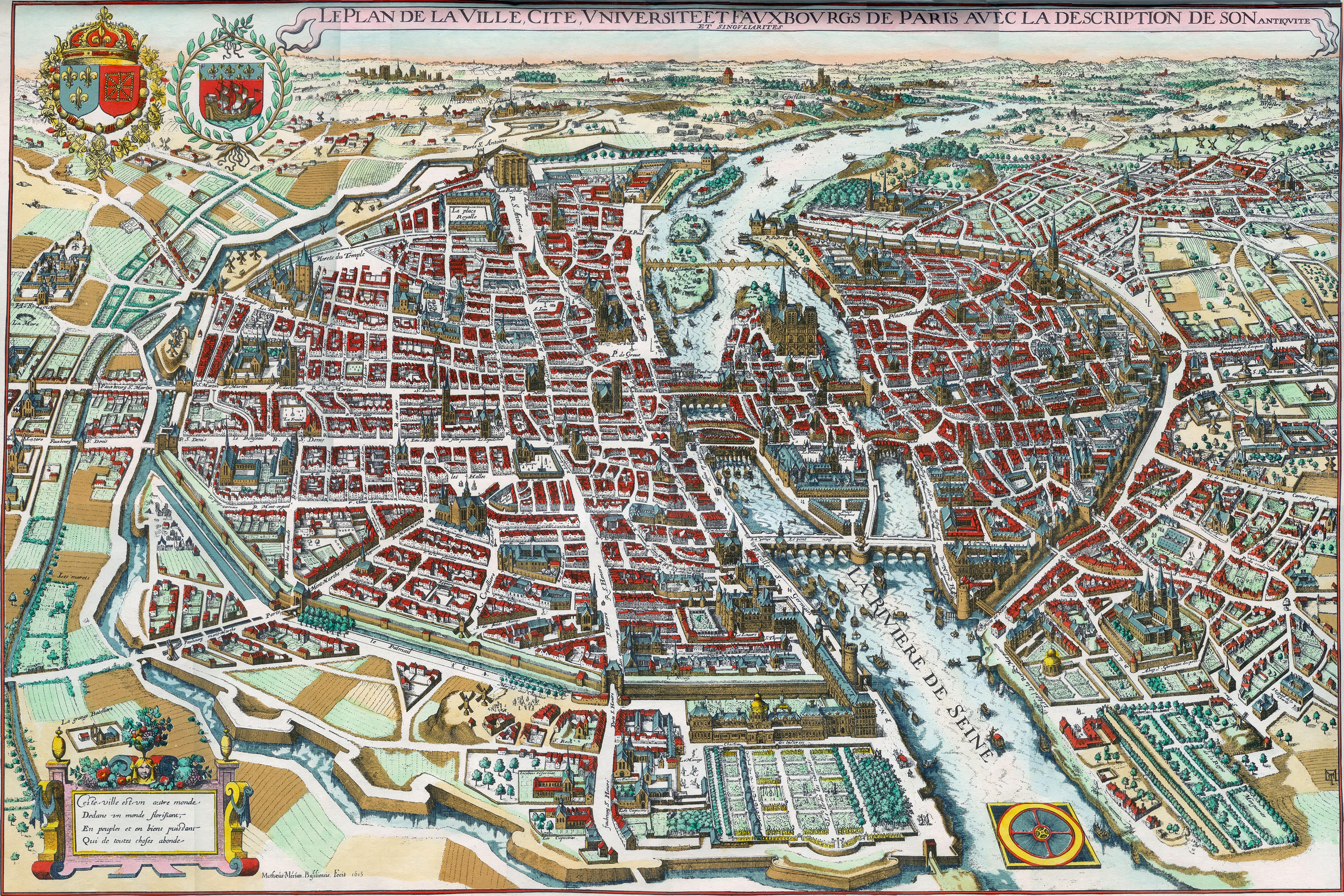 The plan de Mérian is a "bird's eye view" map of Paris.